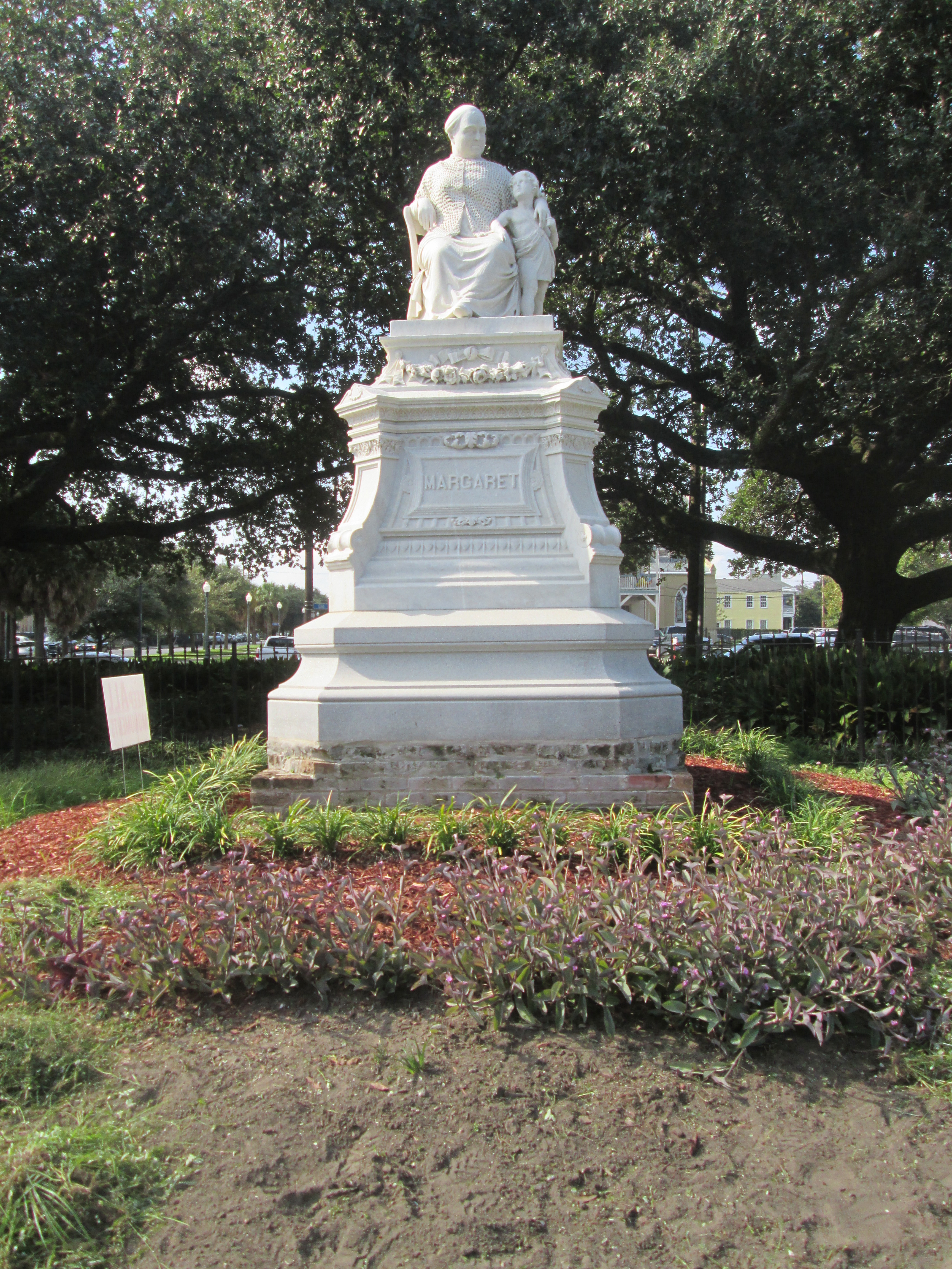 The "Margaret" statue in New Orleans has recently been cleaned and restored.